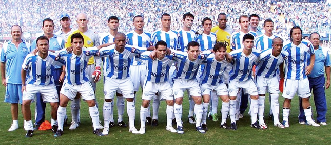 Elenco avaiano em 2009.